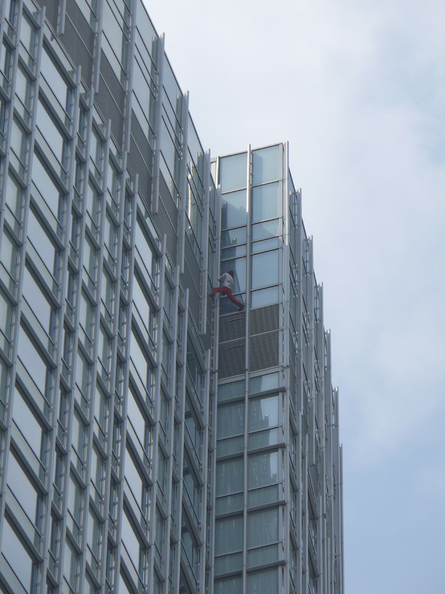 Alain Robert ascend of Four Seasons Hotel Hong Kong in 2008